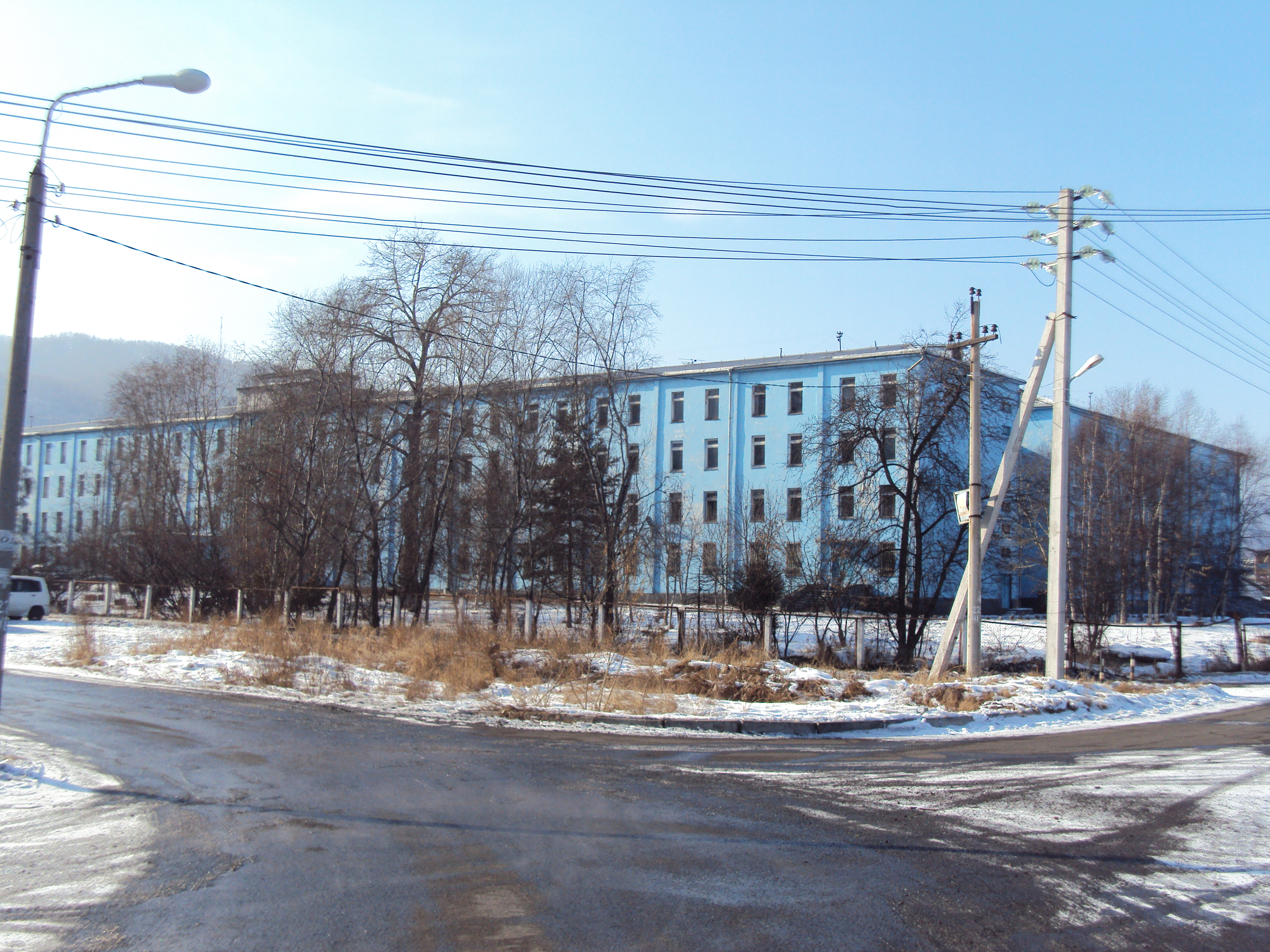 Узловая больница Слюдянки